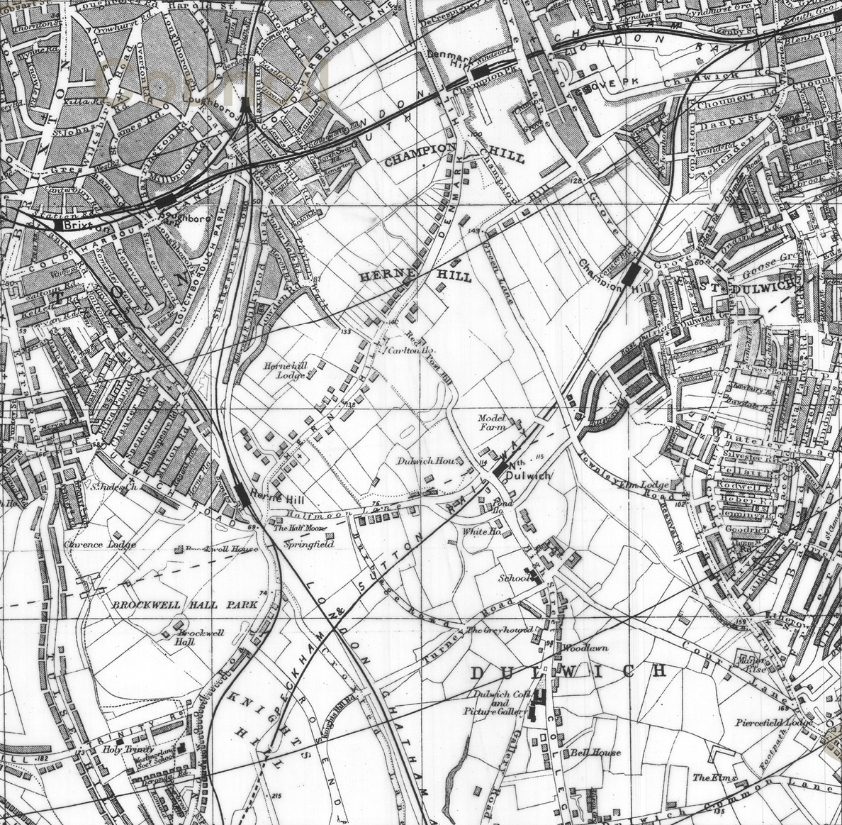 1888 Map of Herne Hill, North Dulwich, East Dulwich, Champion Hill, Knight's Hill. Extract from map of Dulwich and Sydenham